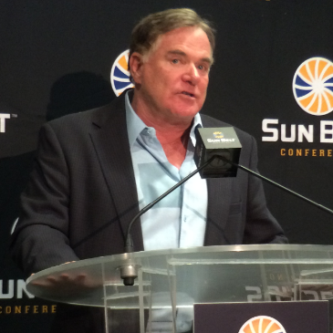 Joe Moglia, head coach of the Coastal Carolina Chanticleers football team, at the 2016 Sun Belt Conference Media Day in the Mercedes-Benz Superdome in New Orleans.